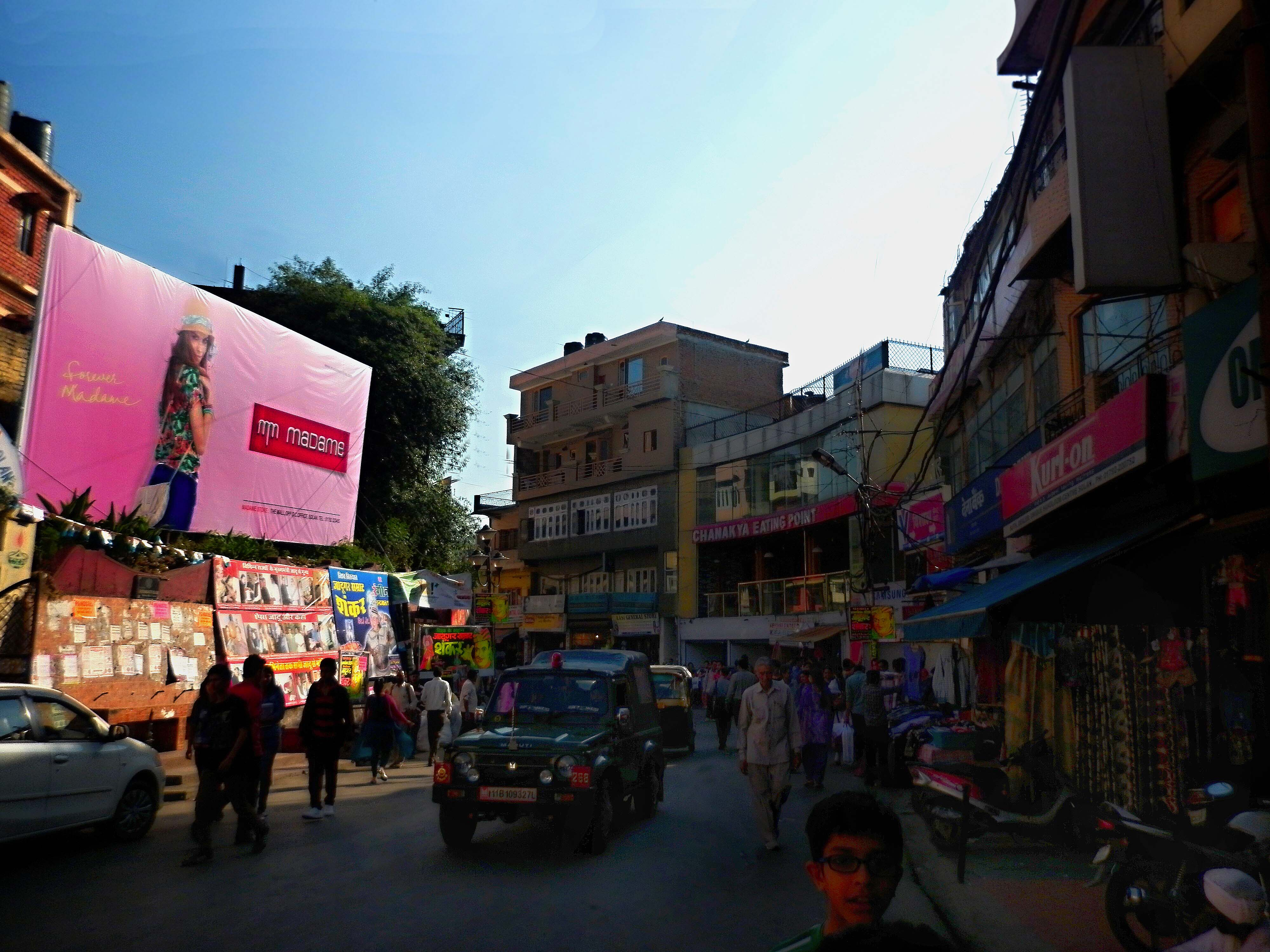 Chanakya restaurant